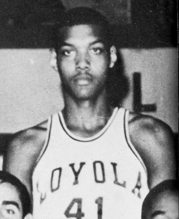 Les Hunter in a team photo of the 1963 Loyola Ramblers varsity men's basketball team, from the 1963 edition of the Loyolan, the Loyola University Chicago yearbook